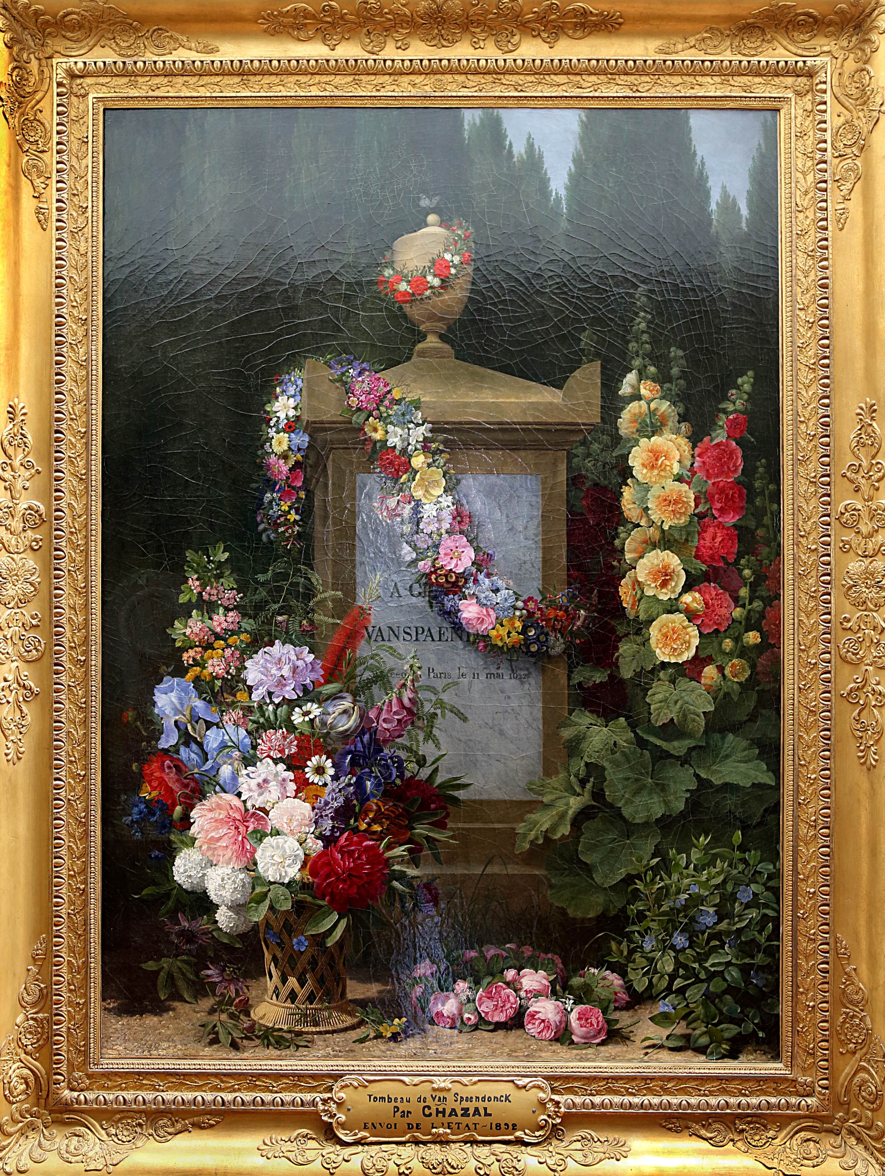 Antoine Chazal, Grave of Gérard Van Spaendonck (1830), oil on canvas. Picture taken in the museum « La Piscine » of Roubaix, France.